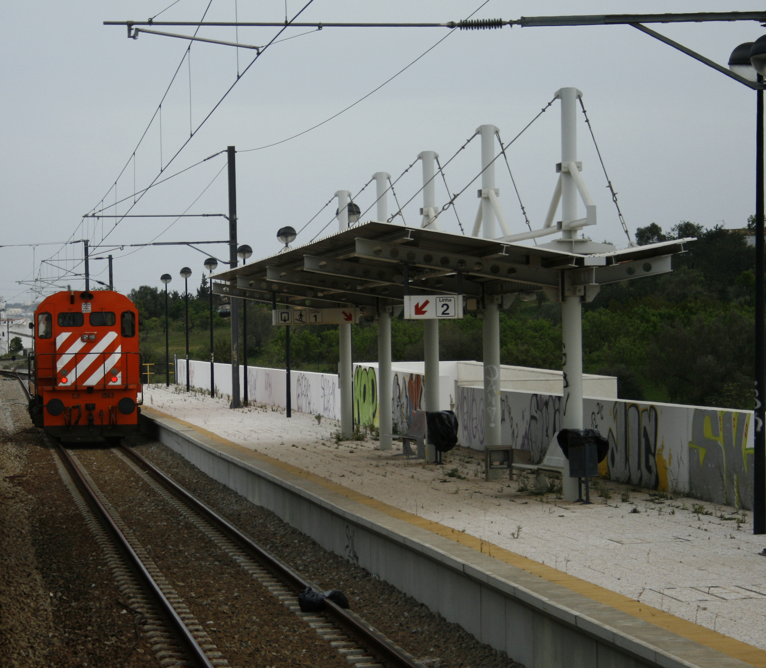 Parque das Cidades Train Station, in the Algarve Line, in southern Portugal.